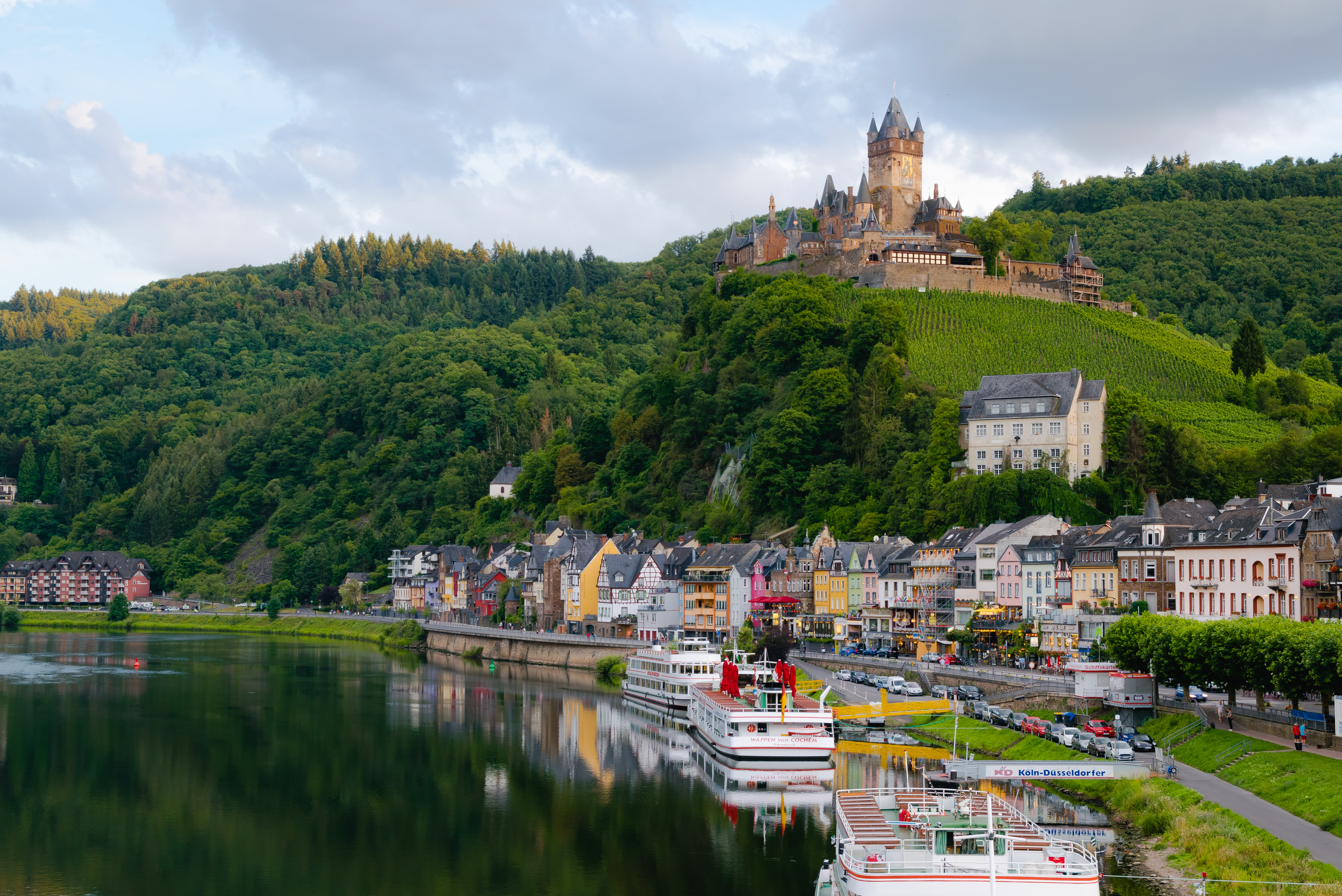 Cochem and the Reichsburg